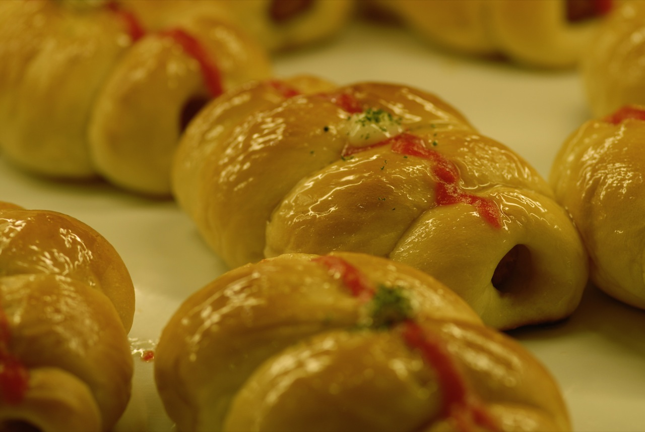 Sausage bread, bakery in Cikini, Jakarta.